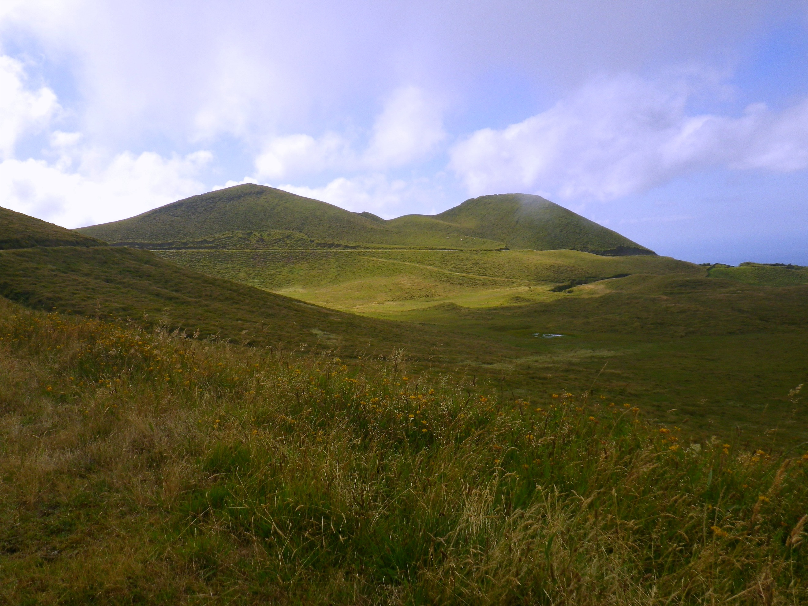 Lagoa do Ilhéu, Small lake in Pico island, near Peixinho lake.